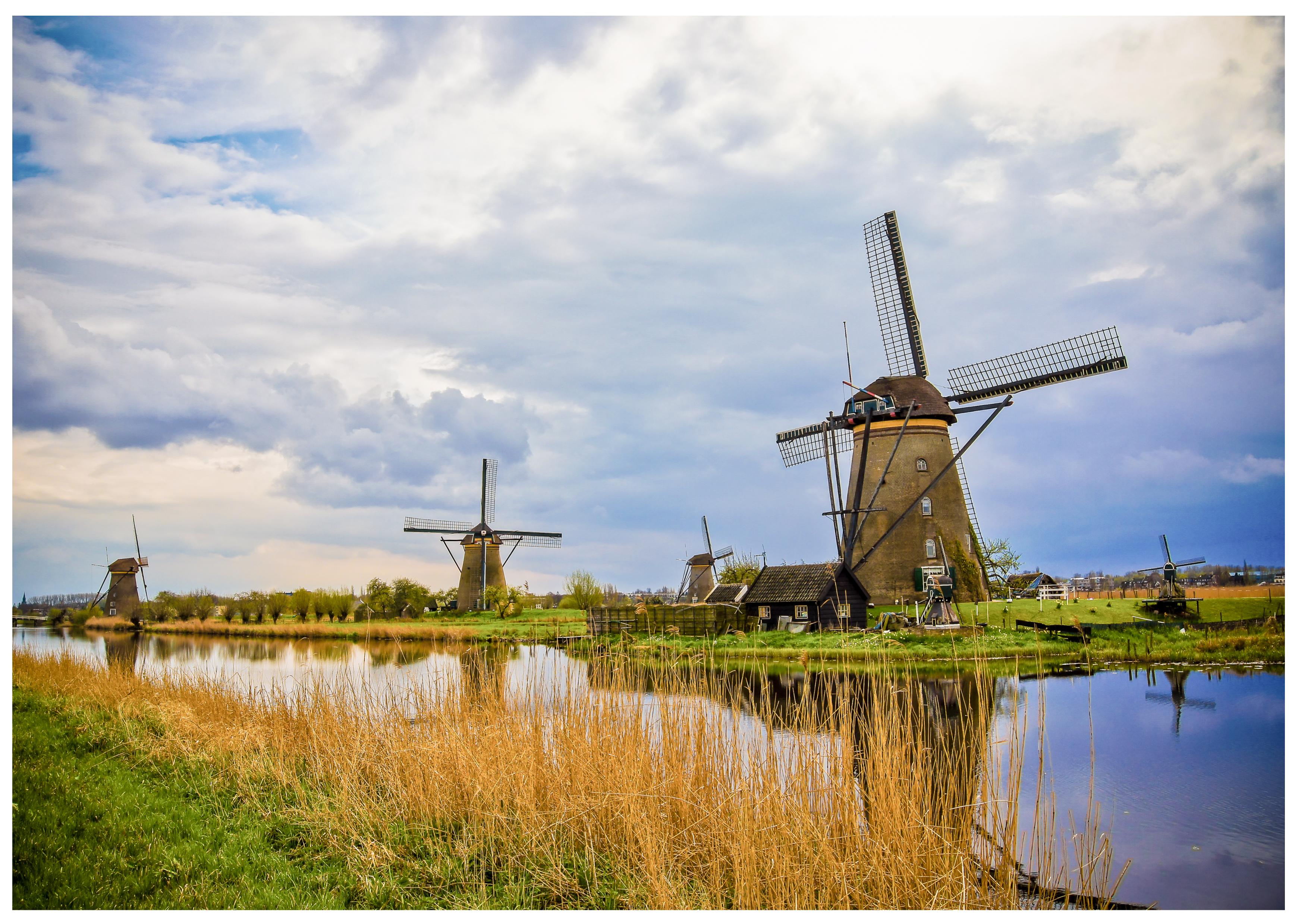 Dutch Mills at Kinderdijk , The Netherlands